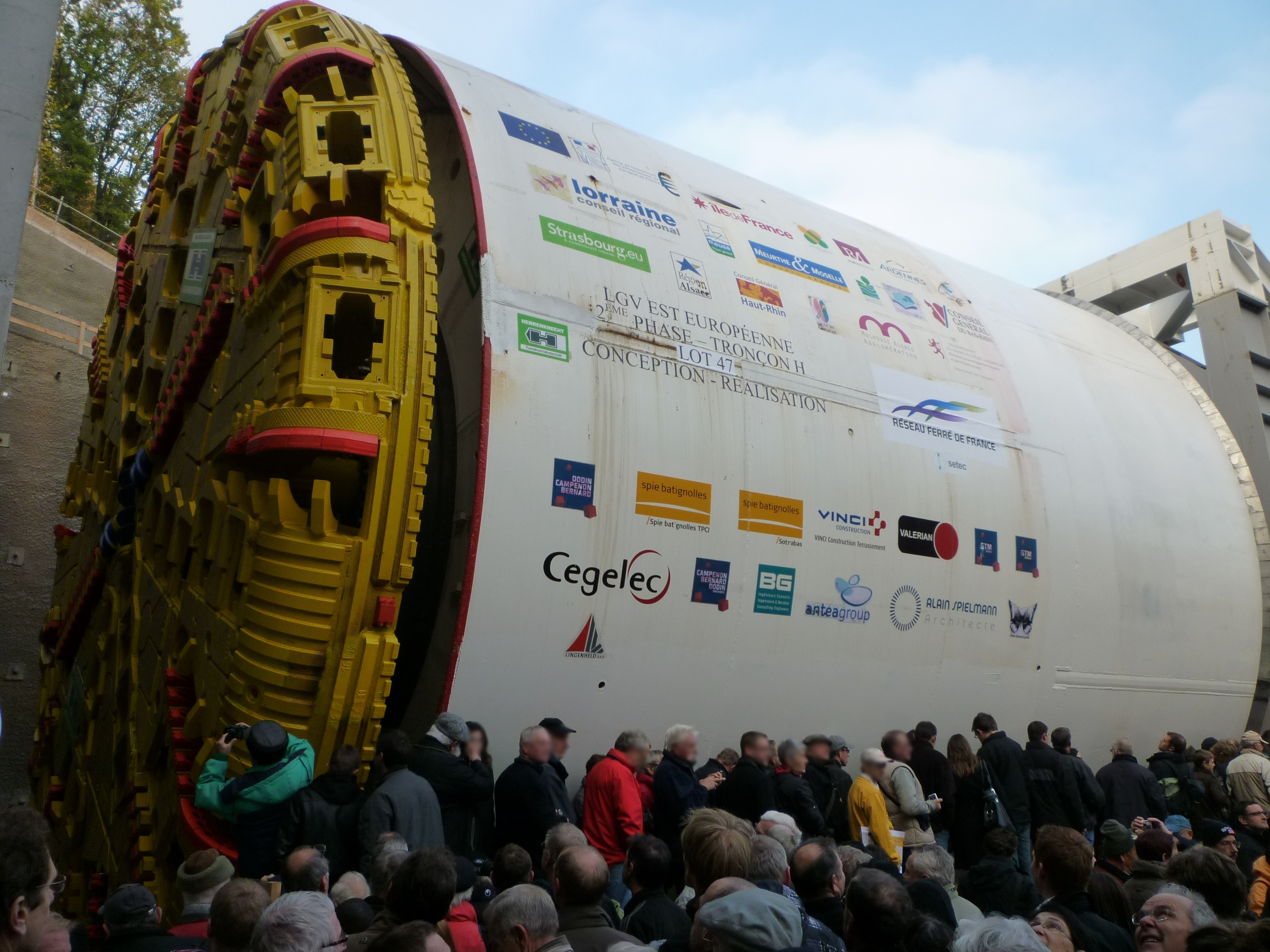 Tunnel Boring Machine at the east end of the Saverne Tunnel before boring began.